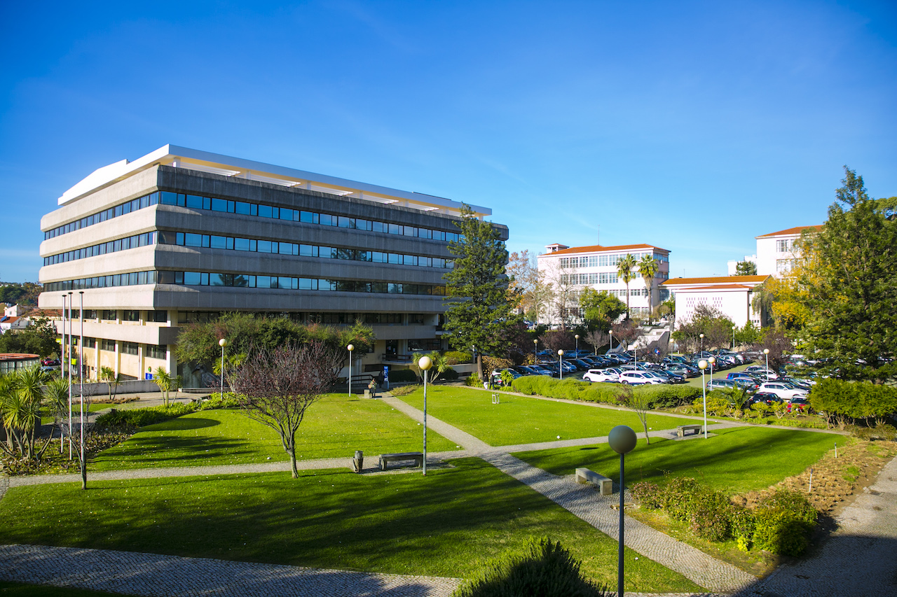 UCP headquarters in Lisbon